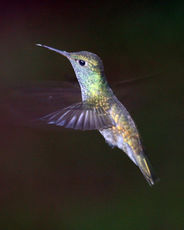 Versicolored Emerald (Amazilia versicolor) Location: Iguasu Falls, Argentina 5th. April 2006